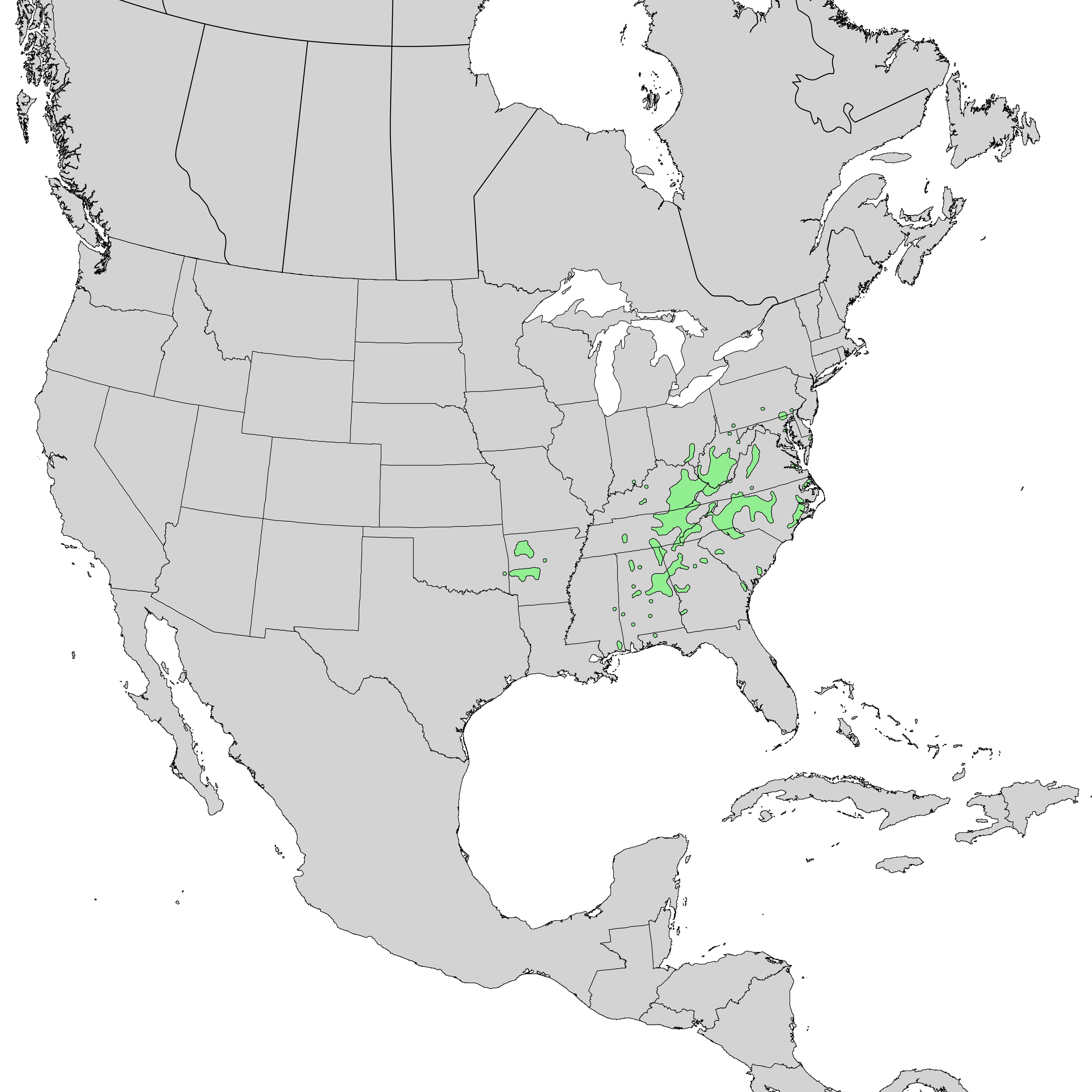 Natural distribution map for Magnolia tripetala (umbrella-tree)